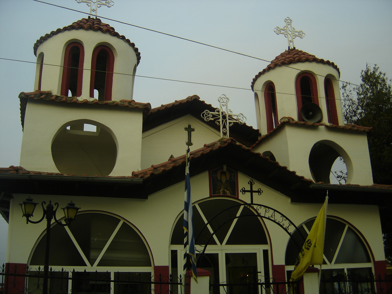 The church of Agios Gerasimos in Mikri Milia.